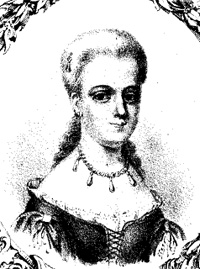 Engraved portrait of Elisabeth Olin